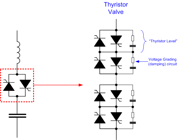 Simplified schematic of a thyristor valve for a Thyristor Switched Capacitor (TSC)